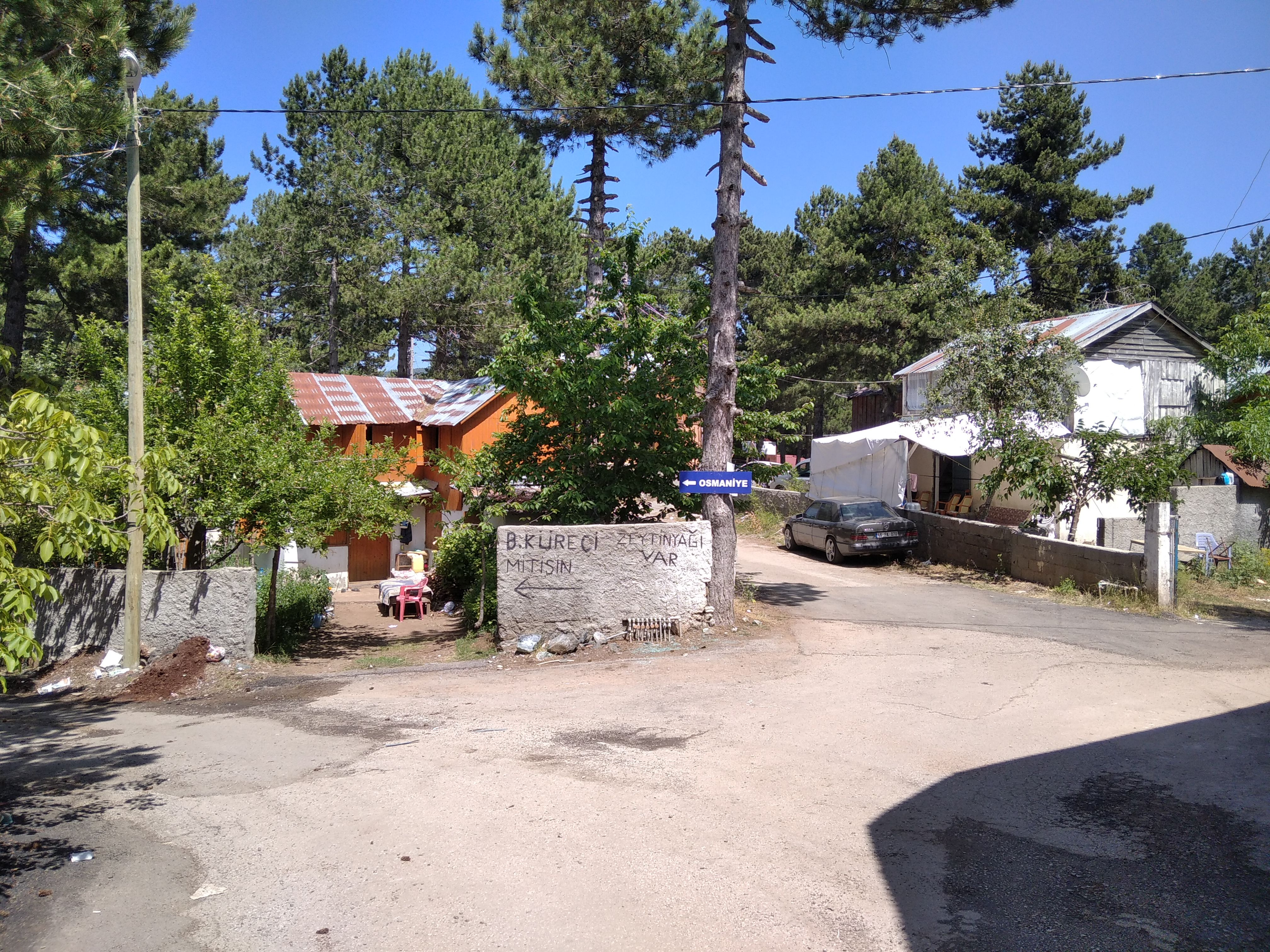 Zorkun is on the south east of Osmaniye, Turkey.